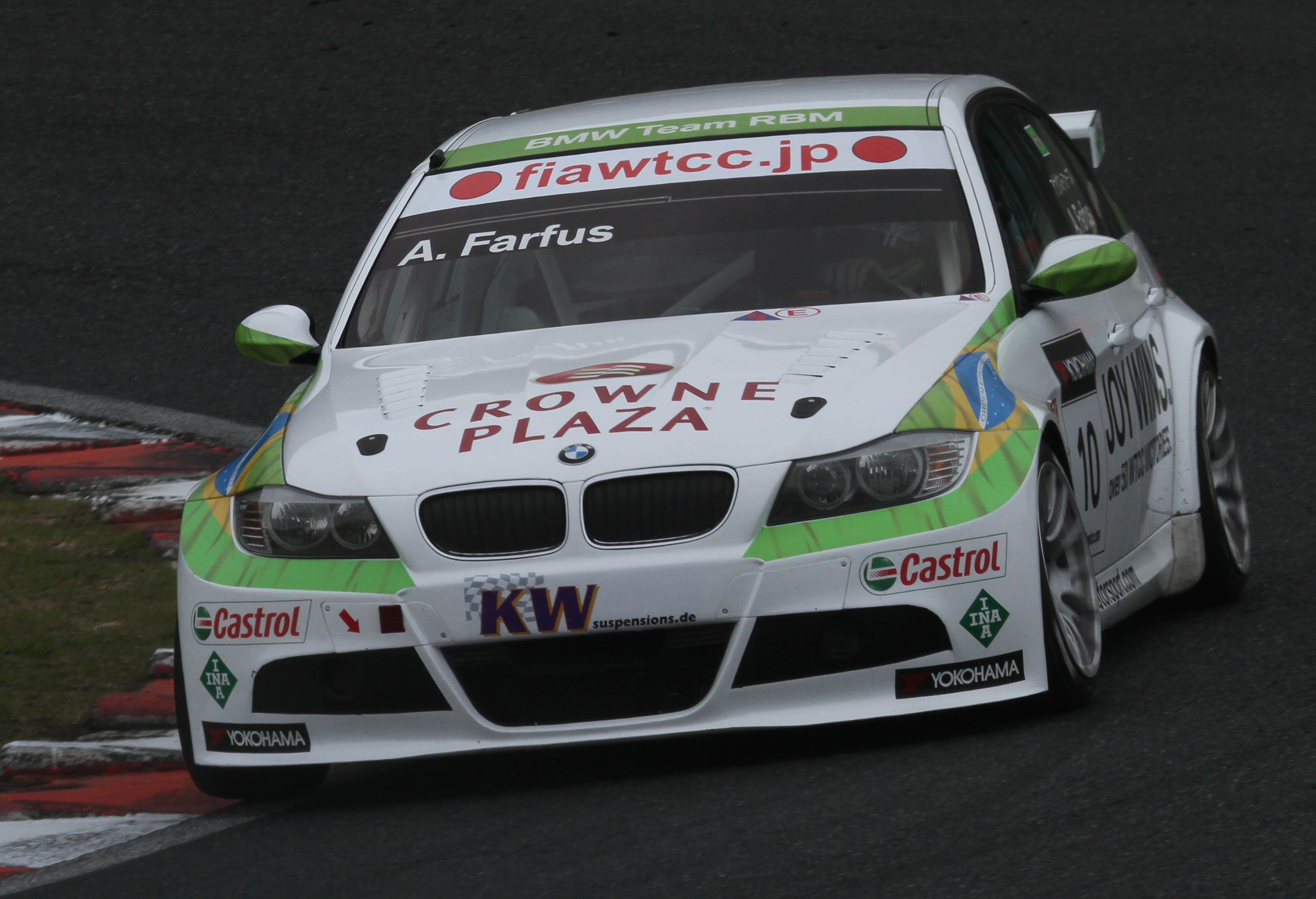 World Touring Car Championship 2010 Race of Japan: Augusto Farfus (BMW Team RBM) during the 2nd free practice session on Saturday.